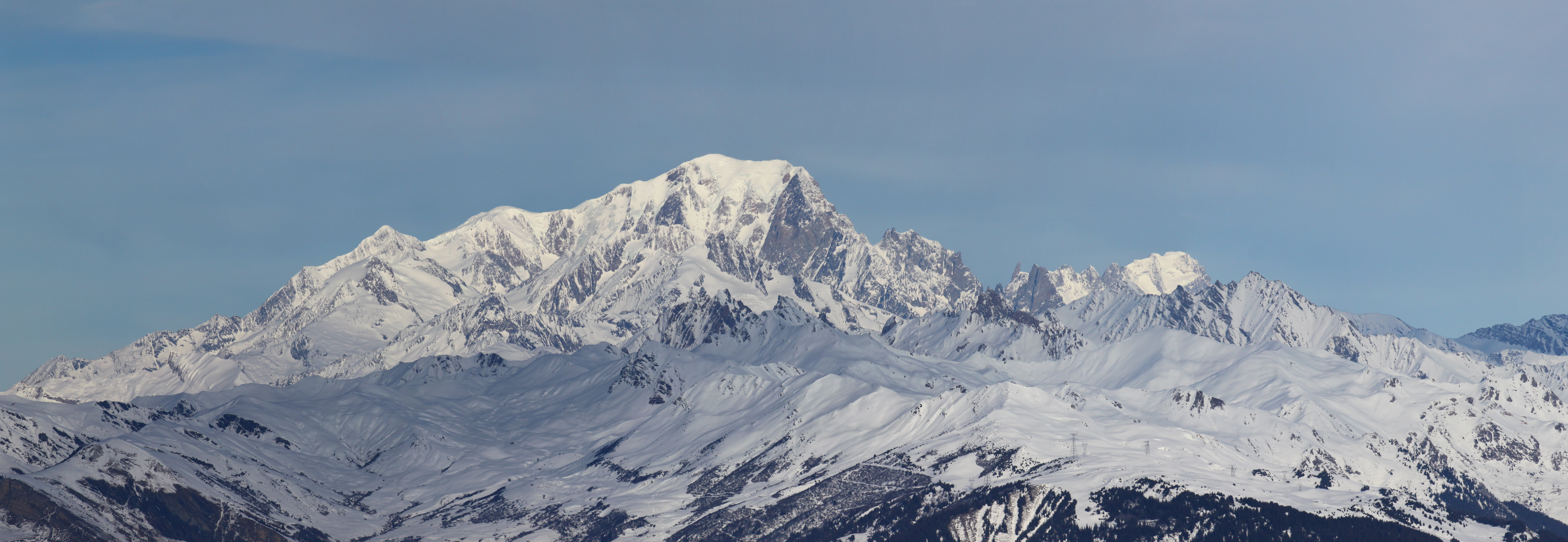 South side of the Mont Blanc, seen from Valmorel